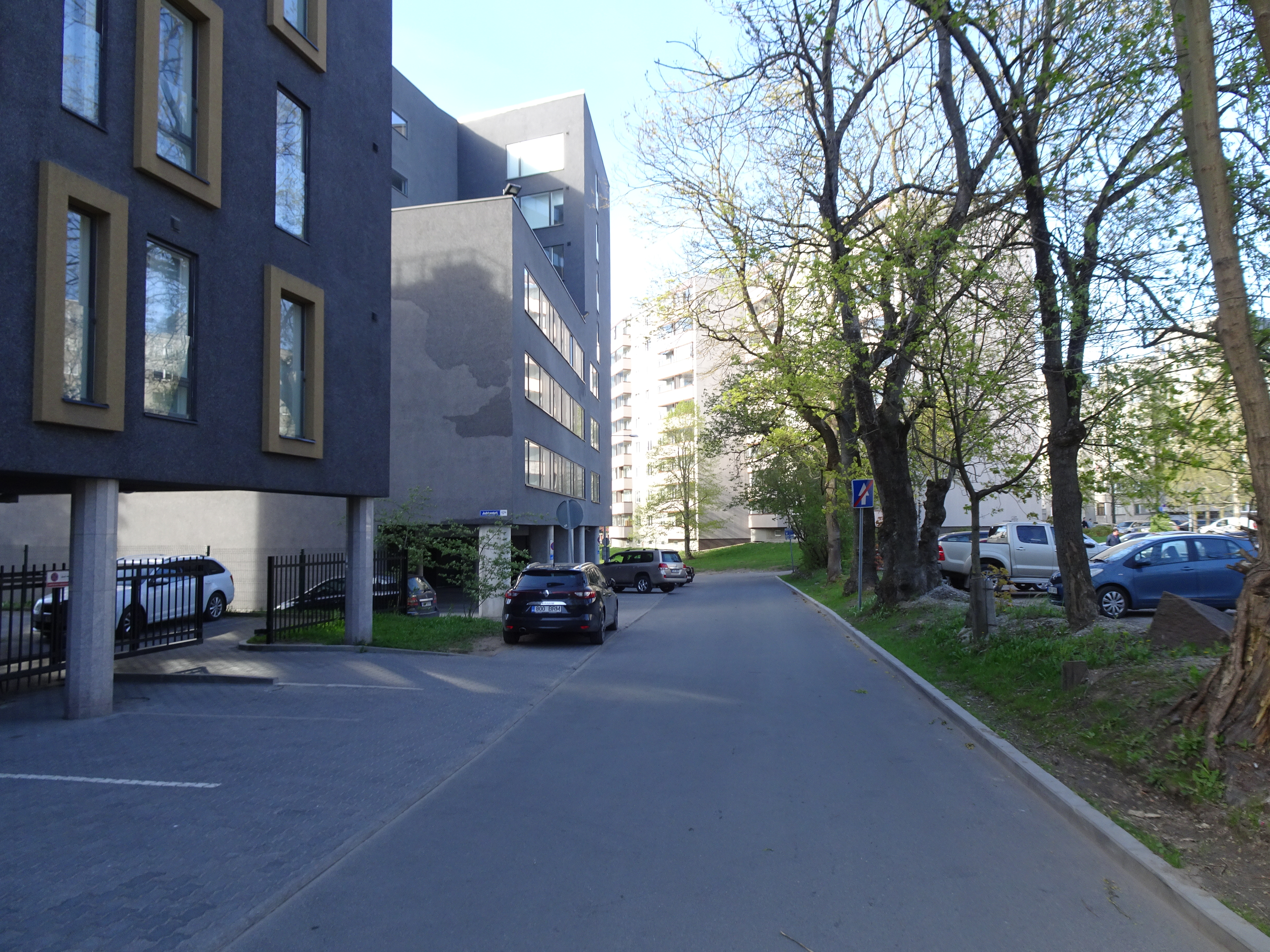 Vana-Liivamäe Street in Tallinn, Estonia